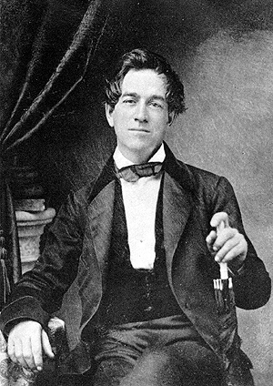 Alfred Lewis Vail (1807–1859), American inventor. Copy of 1853 Daguerrotype, published in 1912. Original owned by his son, James Cumming Vail, then residing in Morristown, New Jersey.